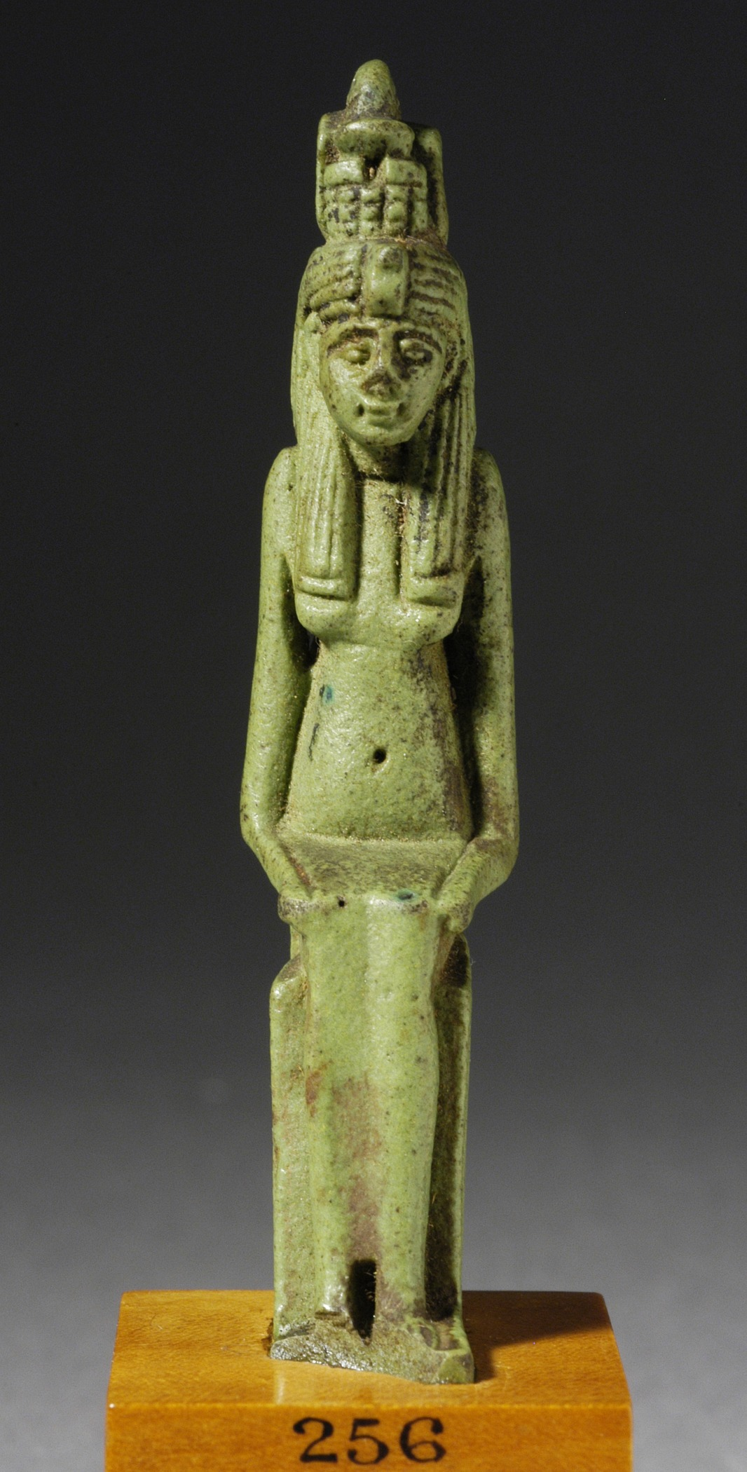 Egypt, New Kingdom - Late Period (1569 - 333 BCE) Sculpture Faience (green) Gift of Hyatt Robert von Dehn (M.69.91.218) Egyptian Art